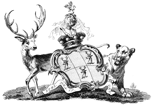 Arms of Roper, Baron Teynham: Per fesse azure and or a pale counterchanged and three buck's heads erased of the second (Kidd, Charles, Debrett's Peerage & Baronetage 2015 Edition, London, 2015). Source: Catton's English Peerage, 1790